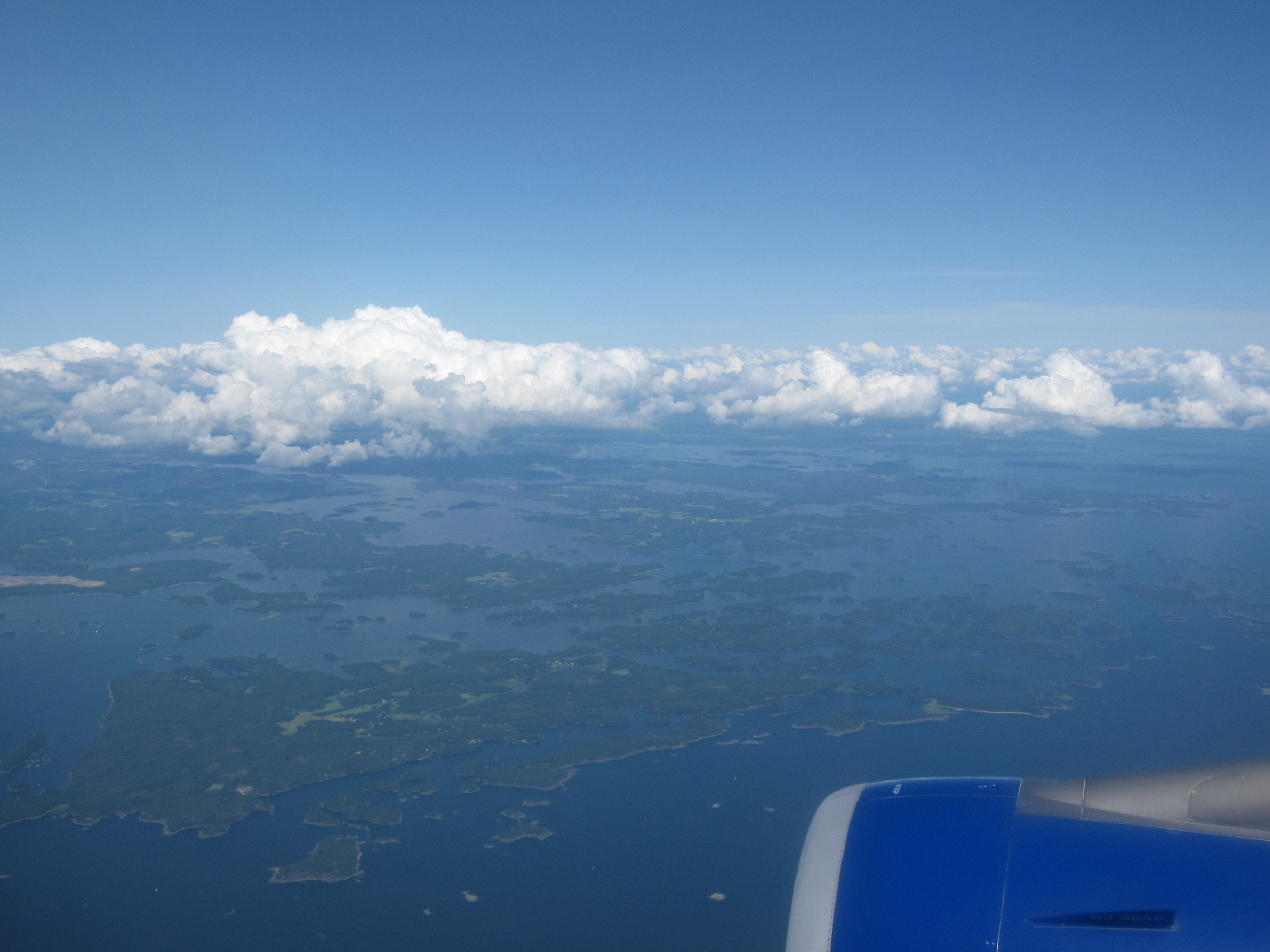 Aerial photograph of Pellinki, in Porvoo Finland